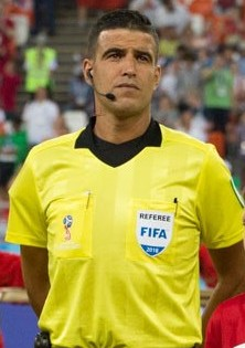 2018 FIFA World Cup Match 46, Panama v Tunisia